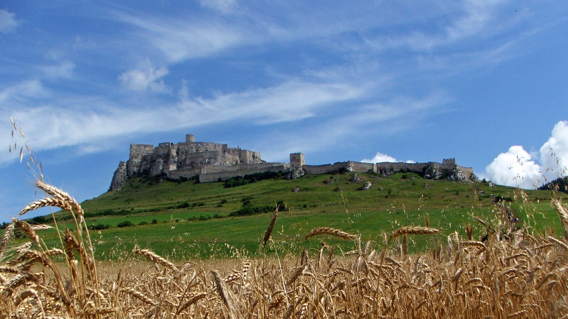 Spis Castle from parking place